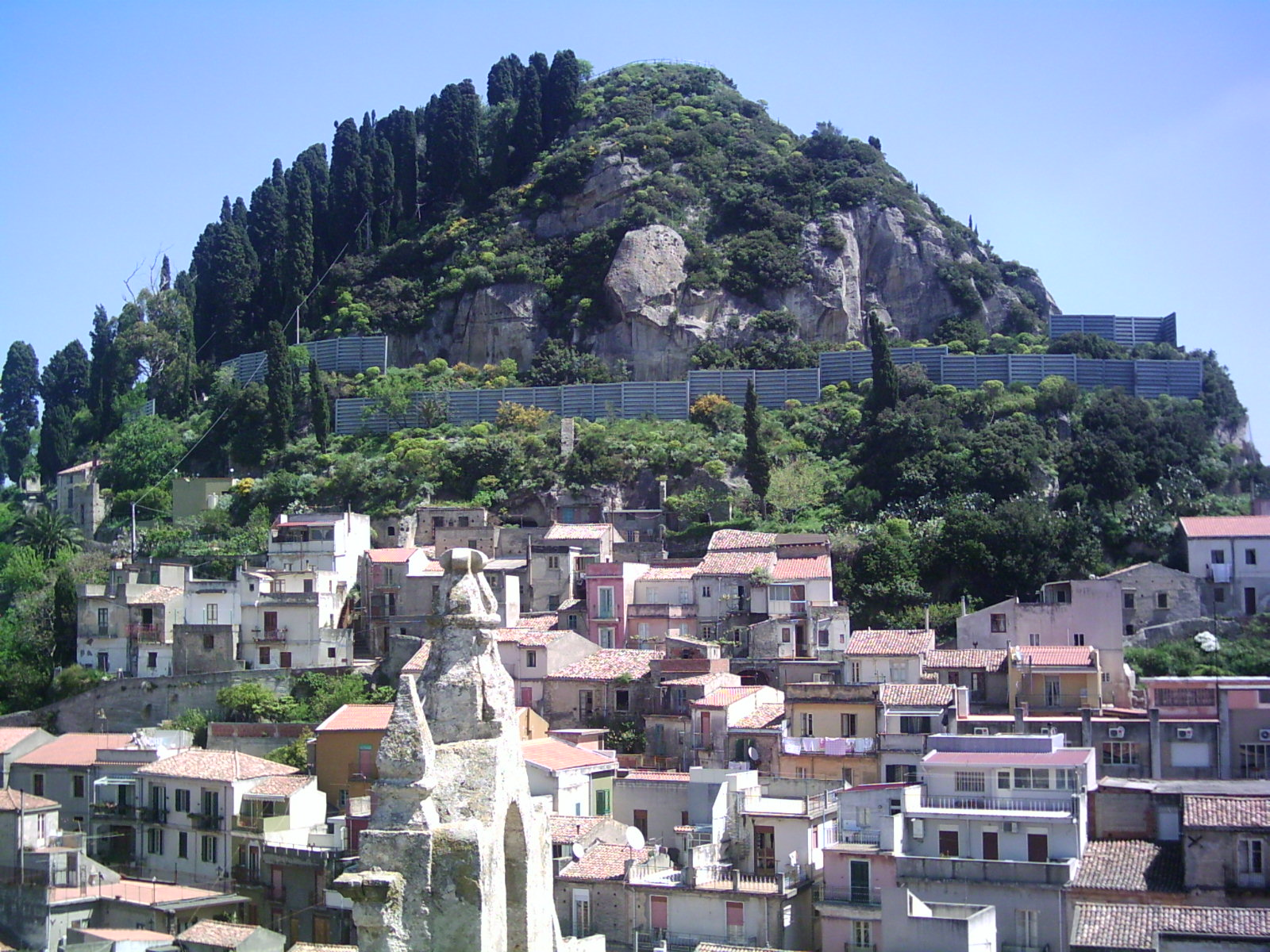 A view of Monforte San Giorgio